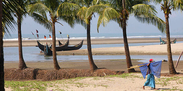 own work